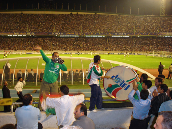 National Football Team of Iran fans in Azadi Stadium, during Iran-Germany friendly match.